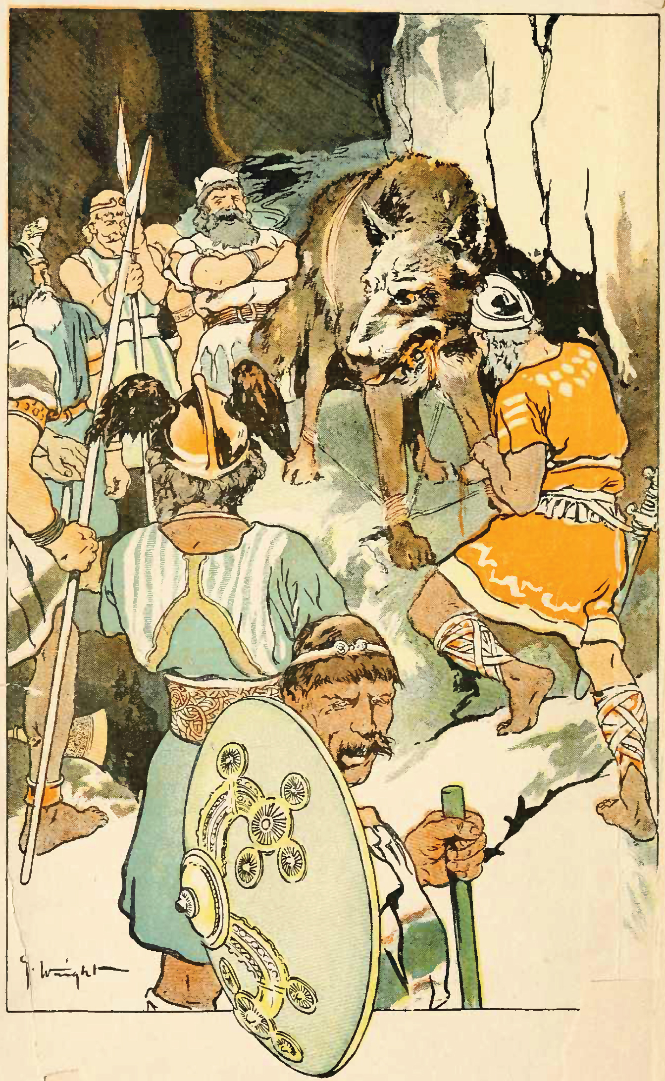 Captioned as "The gods were so delighted that they began to laugh". The gods bind the wolf Fenrir.